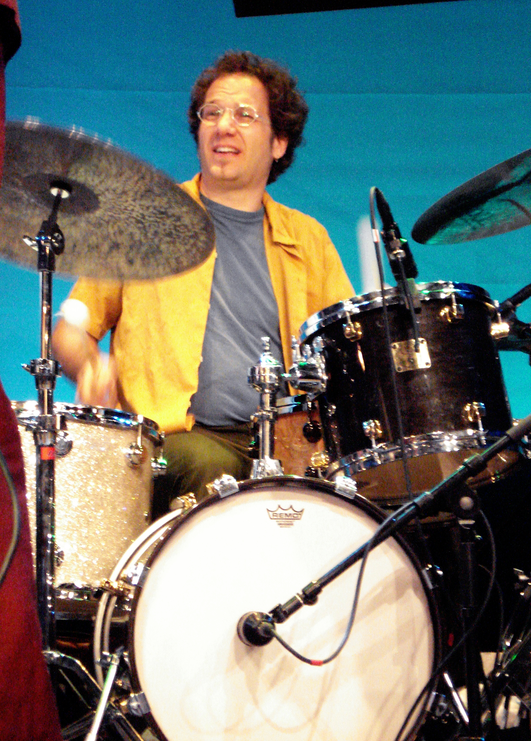 Scott Amendola live at Saalfelden 2009